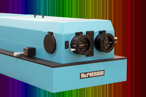 McPherson Model 2062 Spectrometer -- We, McPherson, made and own this image and hereby release it under CC By-SA 3.0 License.